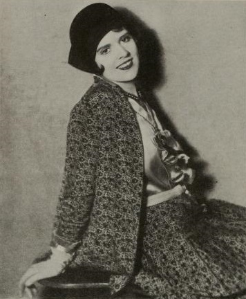 Alyce McCormick (1904-1932)